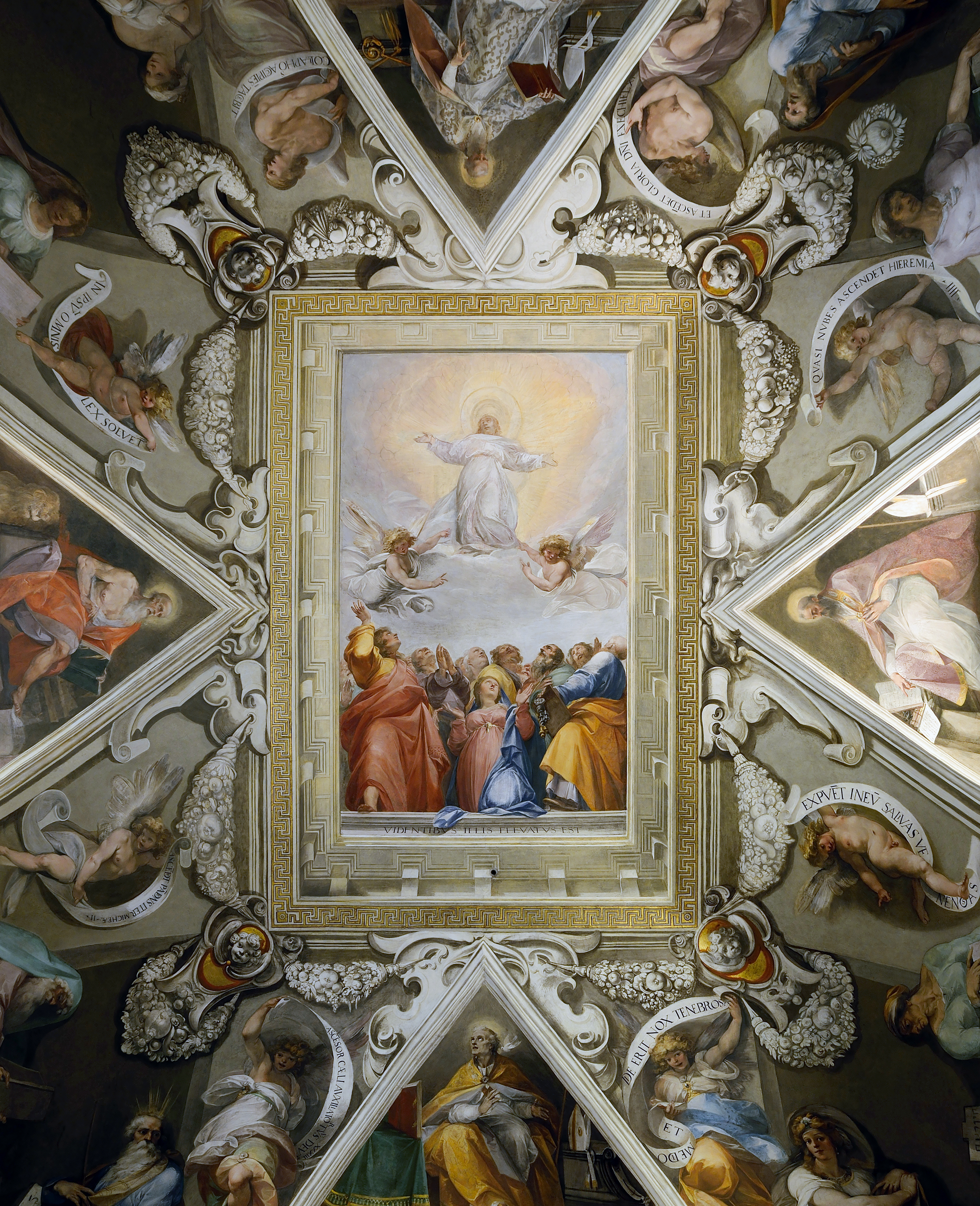 Ascension of Jesus among the apostles and the Virgin. Artist Cavalier d'Arpino. Olgiati chapell, Santa Prassede. Rome, Italy.